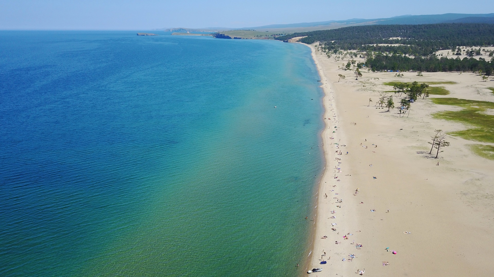 Beach in Olkhon Island, Siberia